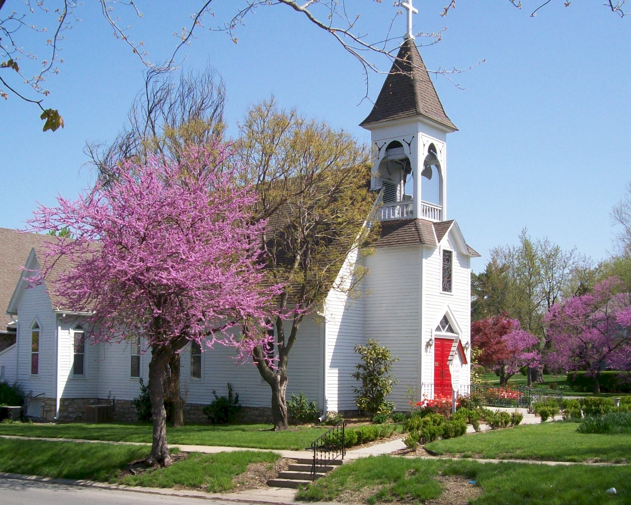 St Paul's Church, March 29, 2008 Green and 5th Street Lee's Summit, MO